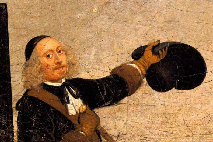 Detail from painting by Wolfgang Heimbach depicting the celebrations when Frederick III of Denmark is instituted as the first Danish absolute King. The detail shows the painter waving his hat